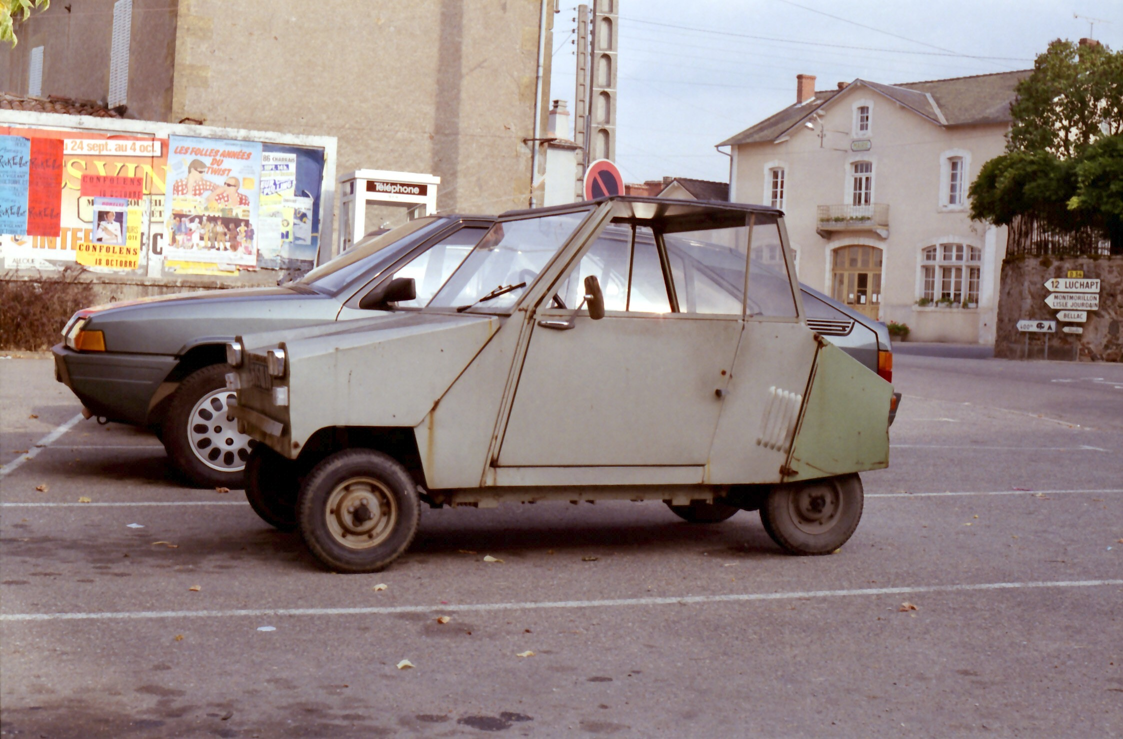 Availles (Vienne, France). Licence plate 2685QK86.